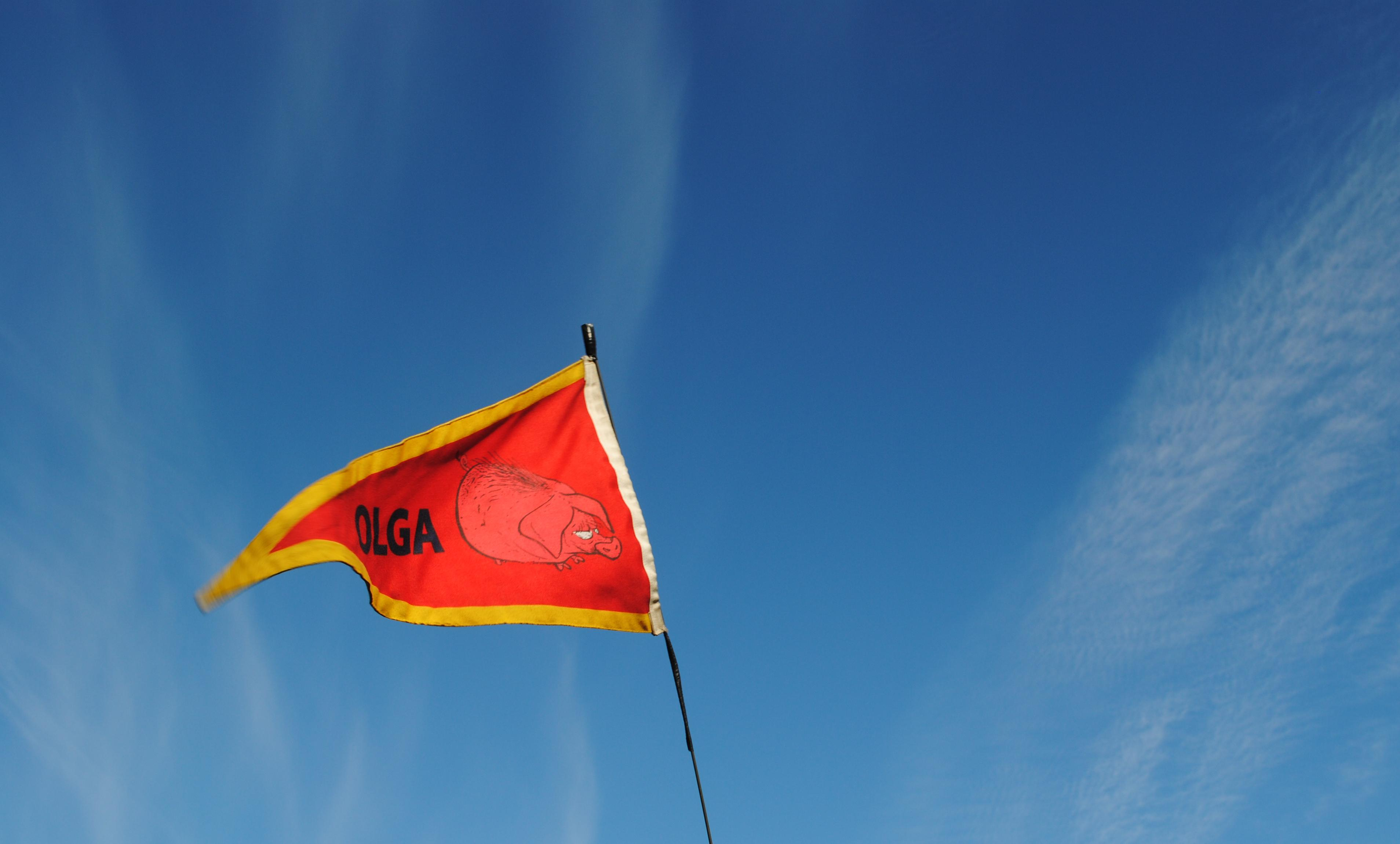 Batteri Olga sitt avdelingsmerke